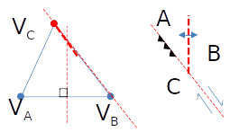 Triple junction theory